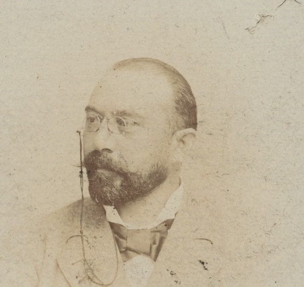 Pictures from the Schwadron collection of the National Library of Israel Eduard Glazer אדוארד גלזר